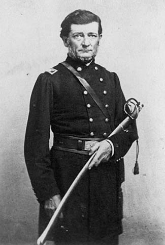 Photograph of Stephen Miller in his uniform. Photograph Collection, Cabinet photograph ca. 1863. Location no. por 15929 r10 Negative no. 89090